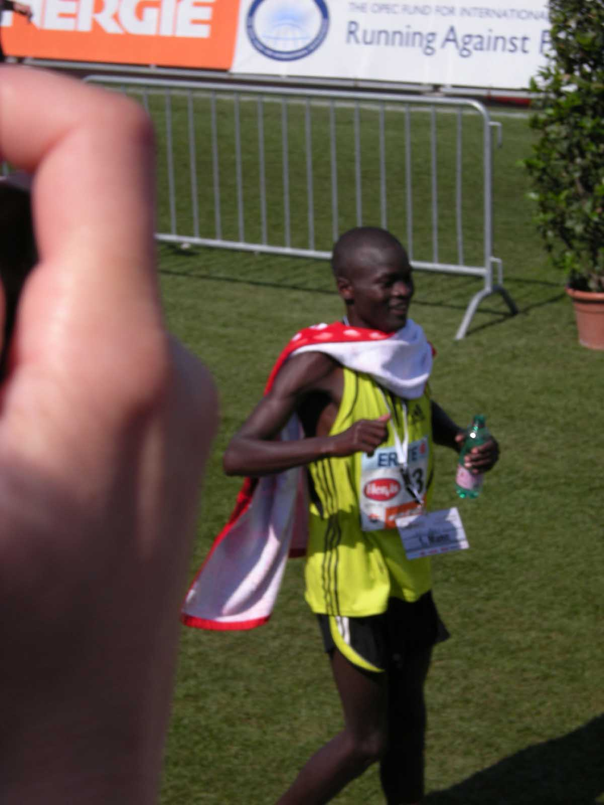 Vienna City Marathon 2008 Note: My camera's time setting was about 1h4min late to local time.